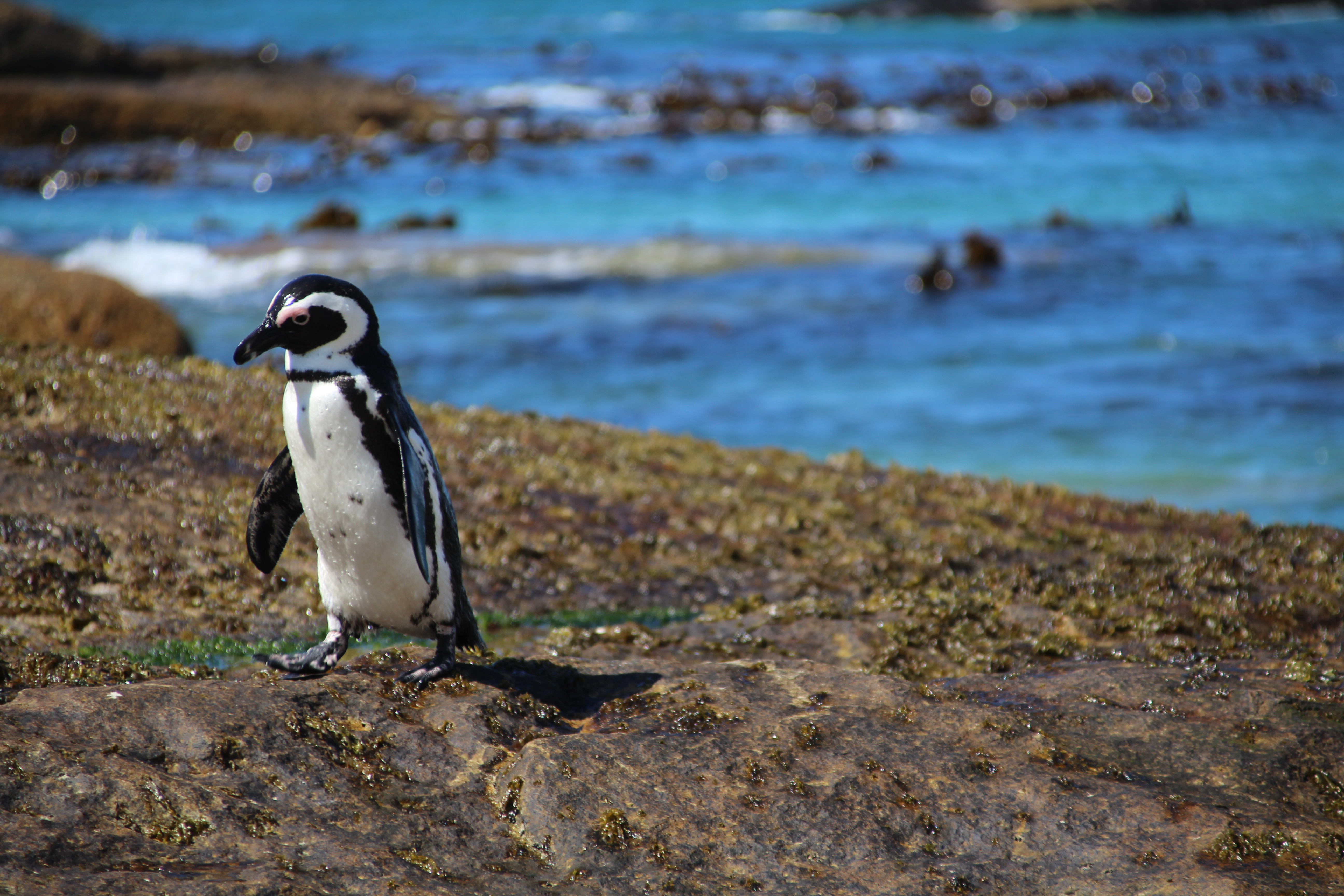 A penguin on the beach in Simon's town